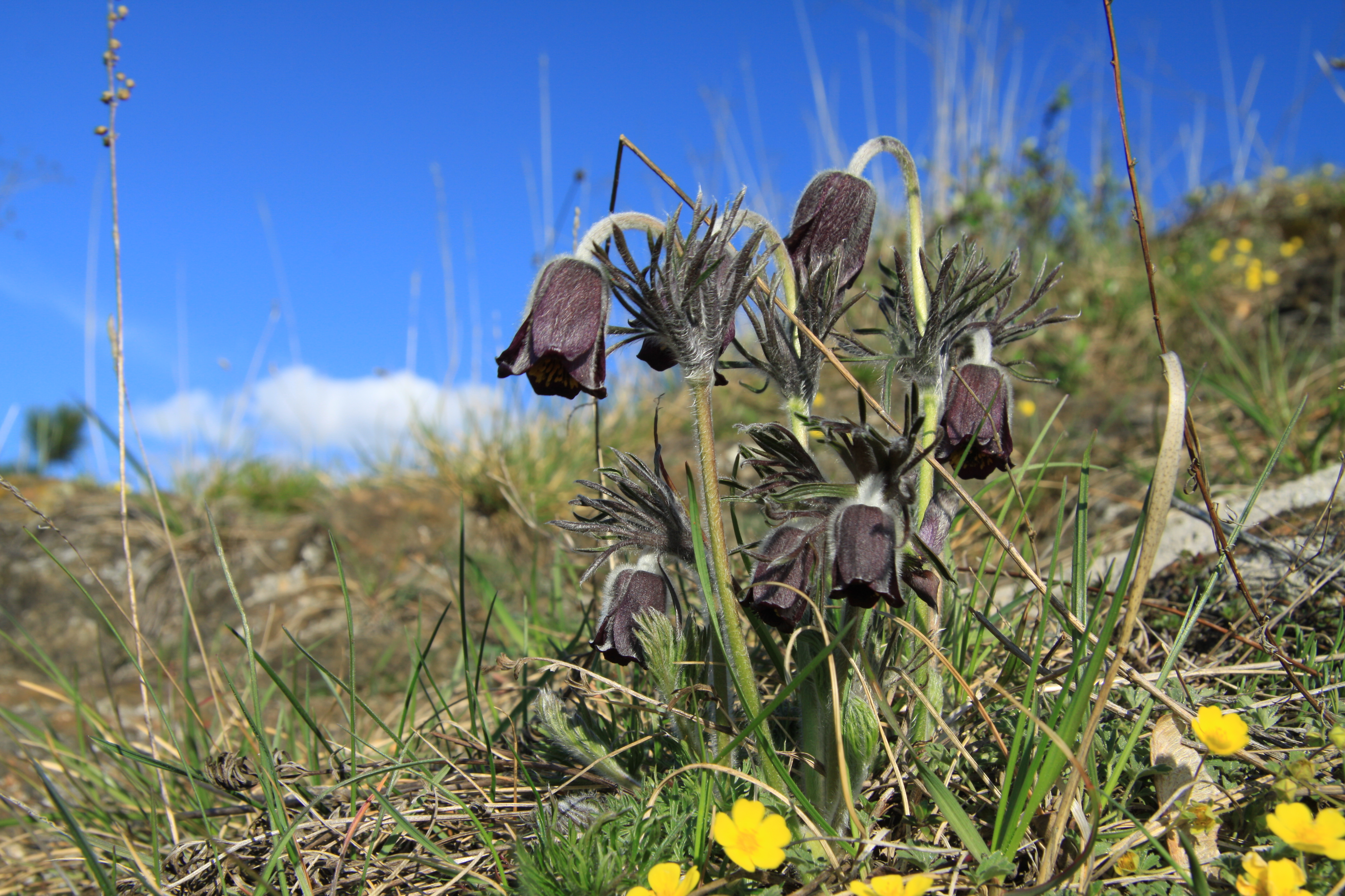 Pulsatilla pratensis in natural monument Kalvárie in Motol, Prague, Czech Republic